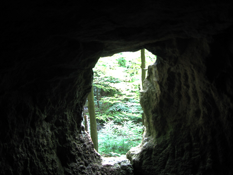 View through a hole out of the Lippoldshöhle